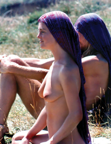 Nambassa festival 1978. Image (photograph) taken by Official Nambassa Photographer and uploaded by the files owner User:Mombas2 Terms of Use: 1/ All users of this image are required to attribute this work to "Nambassa Trust and Peter Terry" and the url: " " is to accompany all use. 2/ Attribution. You must attribute the work in the manner specified by the author or licensor. 3/ For any reuse or distribution, you must make clear to others the license terms of this work. Statement by Nambassa Trust and Peter Terry